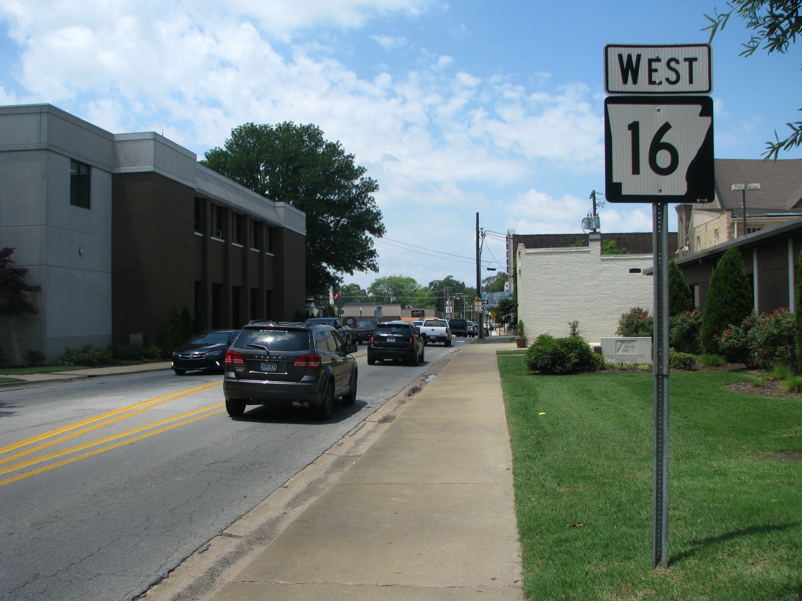 This photo was taken at the eastern end of Arkansas Highway 16 in Searcy. I took this with my Canon PowerShot S5 IS on June 1st, 2018.